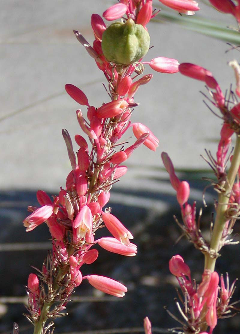 Photo of Hesperaloe parviflora in Las Vegas